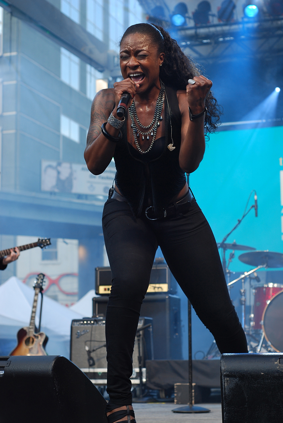 Jully Black performing at Luminato 2010 First Night.